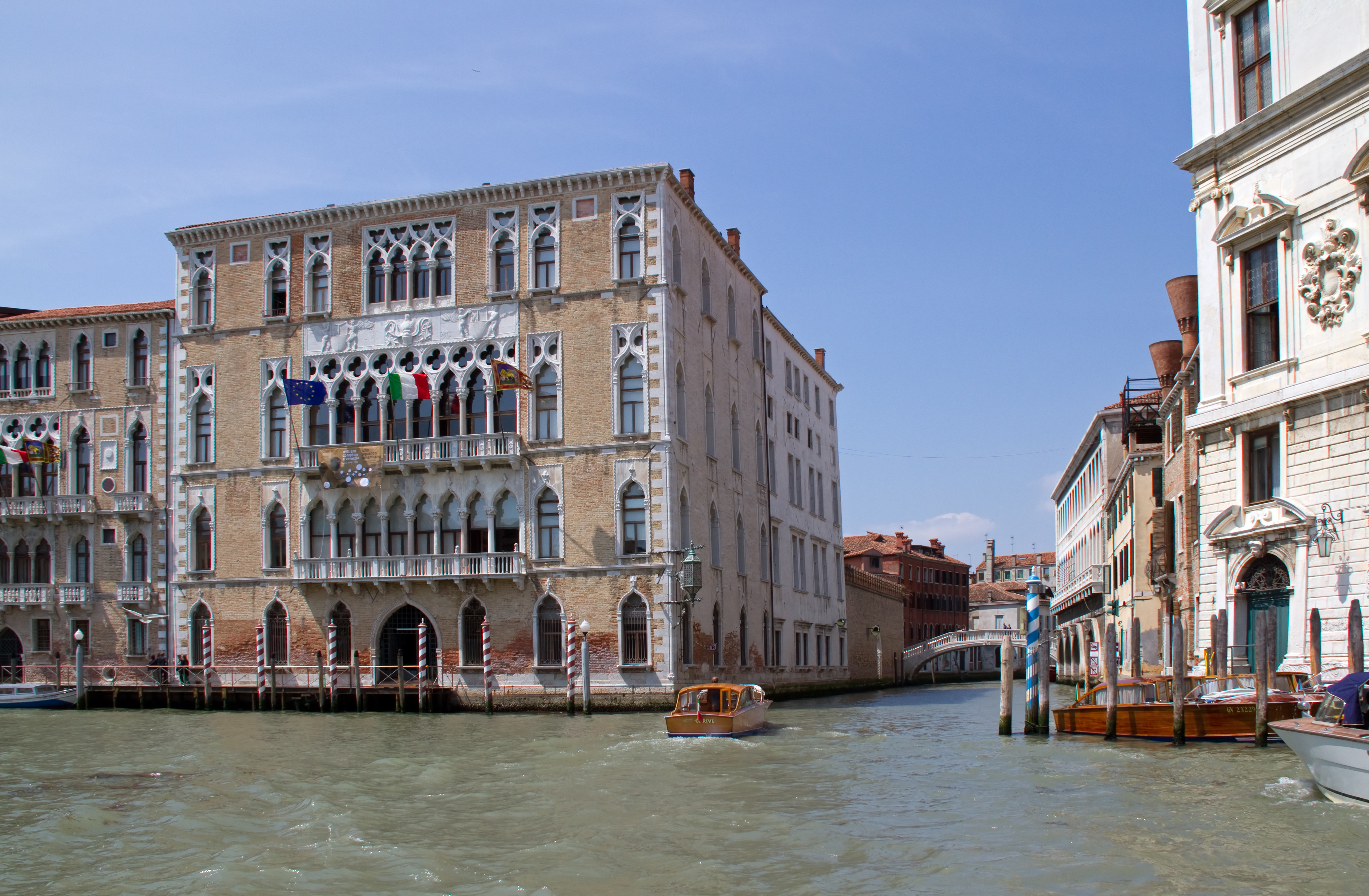 Grand Canal 9